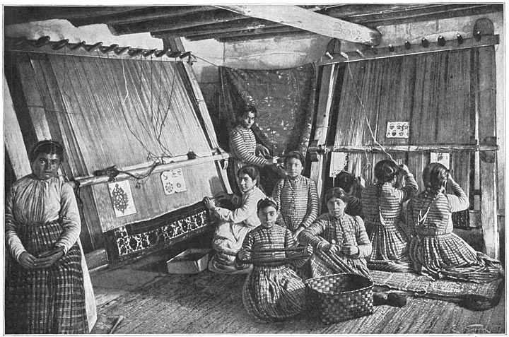 Armenian girls weaving carpets in Van in 1907. Scanned image from Noël Dolens, Le Tour de Monde, Paris, 1907, p. 247.